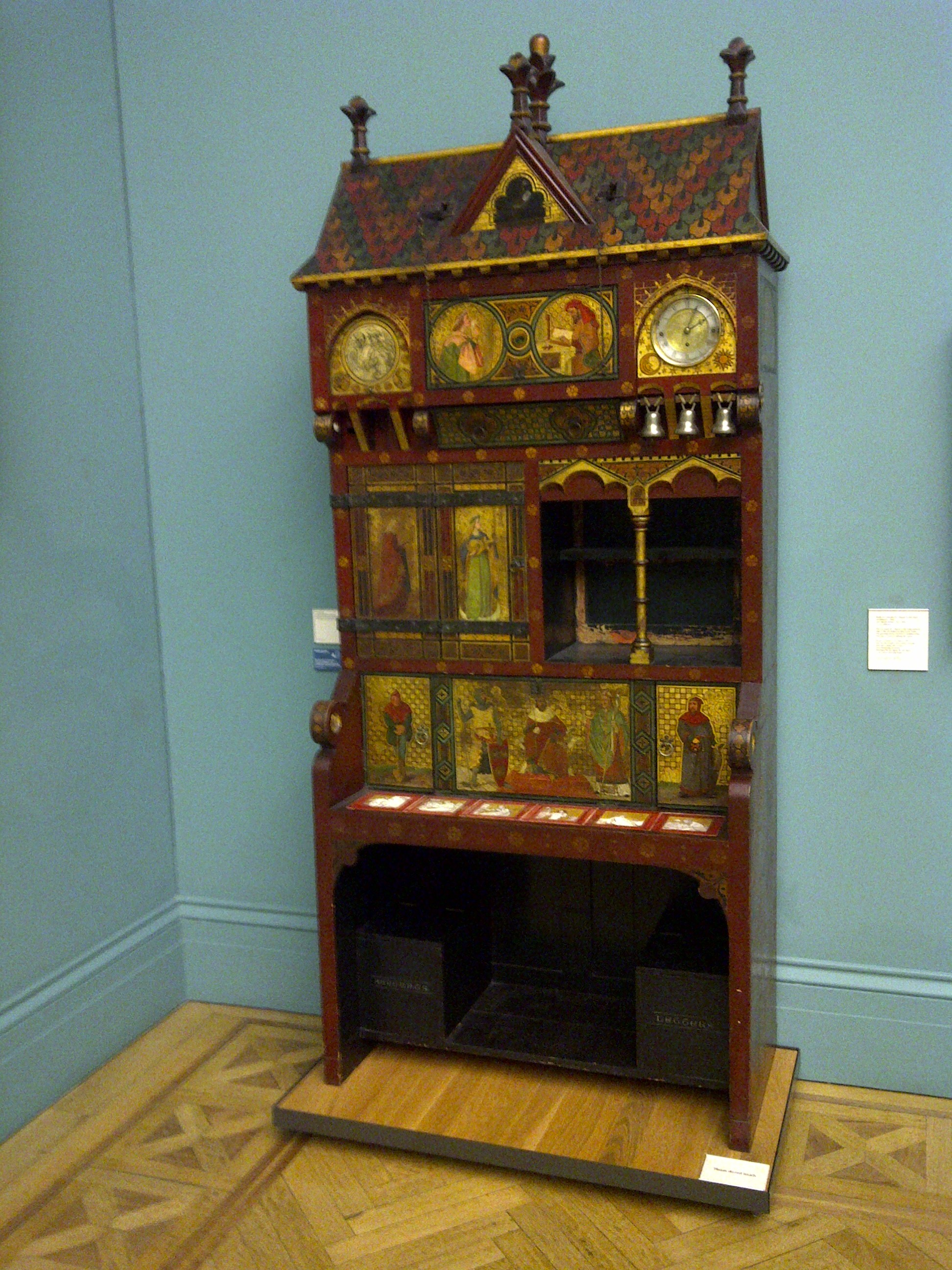 William Burges (British, 1827-1881): Painted Bookcase (1867), designed by Burges, built by Gualbert Saunders - Manchester City Art Gallery